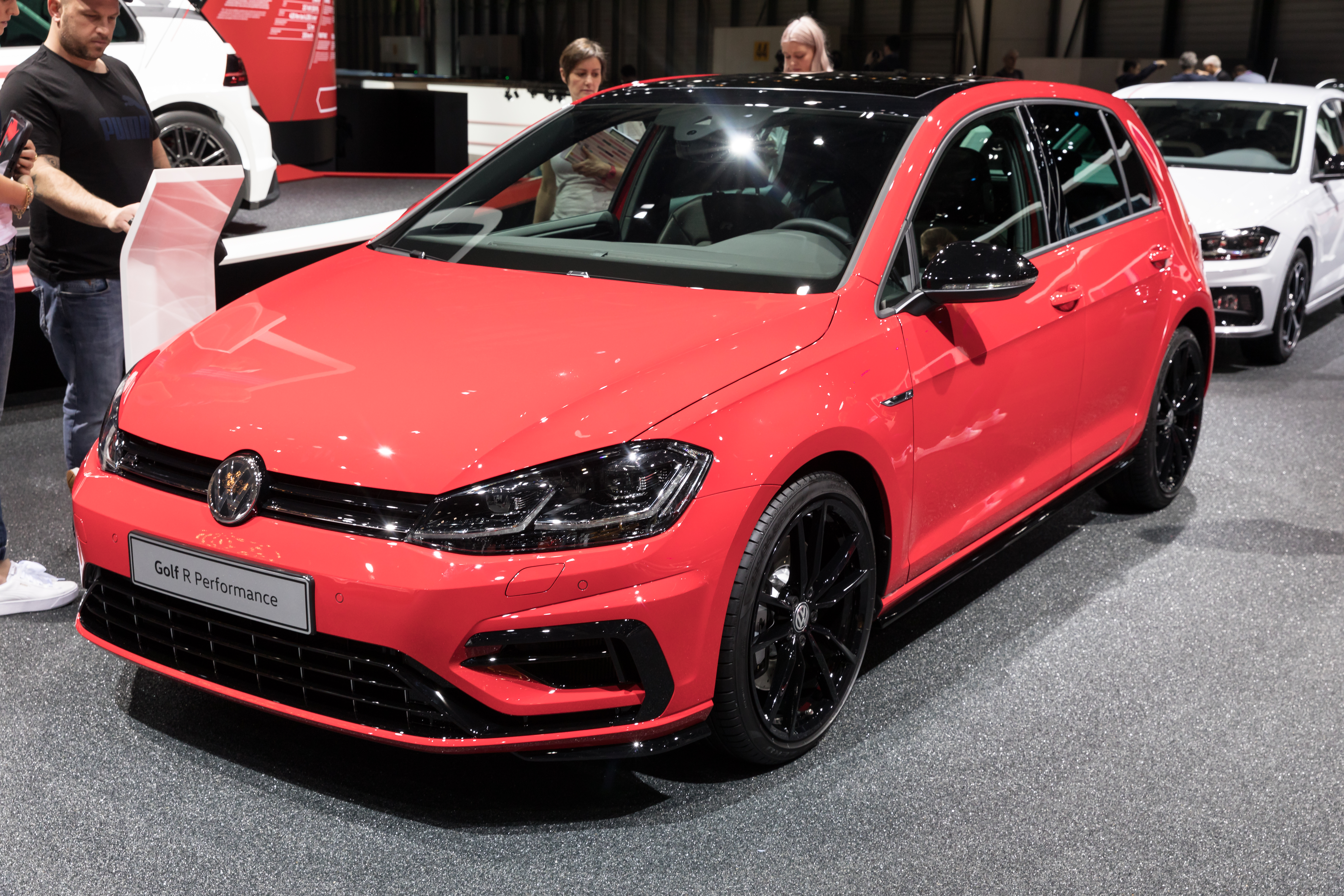 Geneva International Motor Show 2018